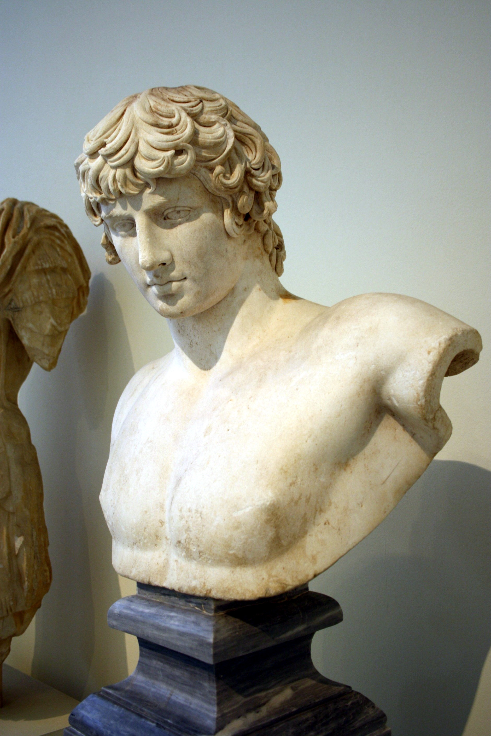 Ancient Roman bust of Antinous. Hadrian age ((AD 117-138),National Archaeological Museum in Athens, Room 32. Picture by Giovanni Dall'Orto, November 11 2009.